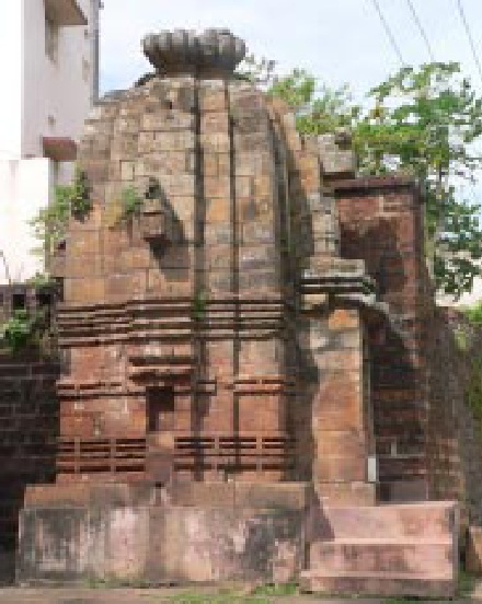 Pabanesvara Siva temple is situated at a distance of 100.00 metres east of Parasuramesvara temple on the left side of the road leading to Kedara-Gouri temples. The temple has a vimana with a renovated porch, facing towards east. The presiding deity is a Sivalingam within a circular yonipitha inside the sanctum. It is a living temple. The temple is surrounded by private residential buildings and market complex on three sides and the road on the south. The temple was rebuilt or renovated sometimes back as it appears from the second phase of building from above the pabhaga.